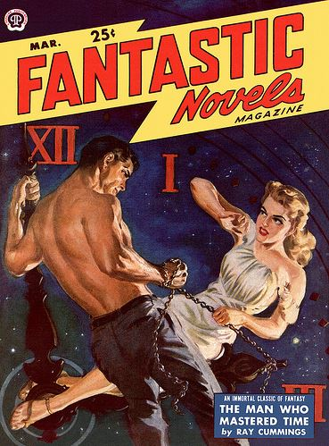 Cover of the March 1950 issue of Fantastic Novels magazine